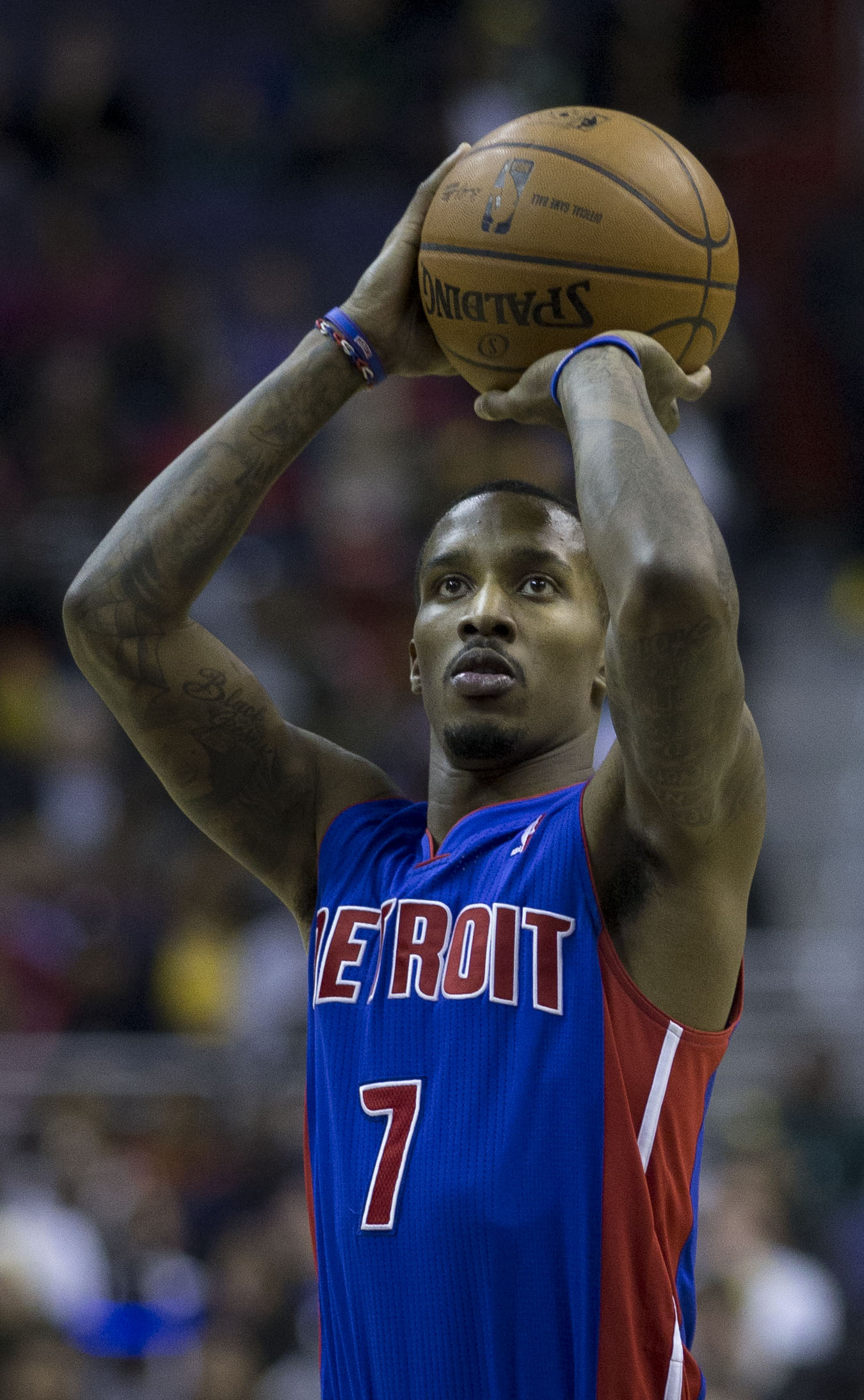 Pistons at Wizards 1/18/14